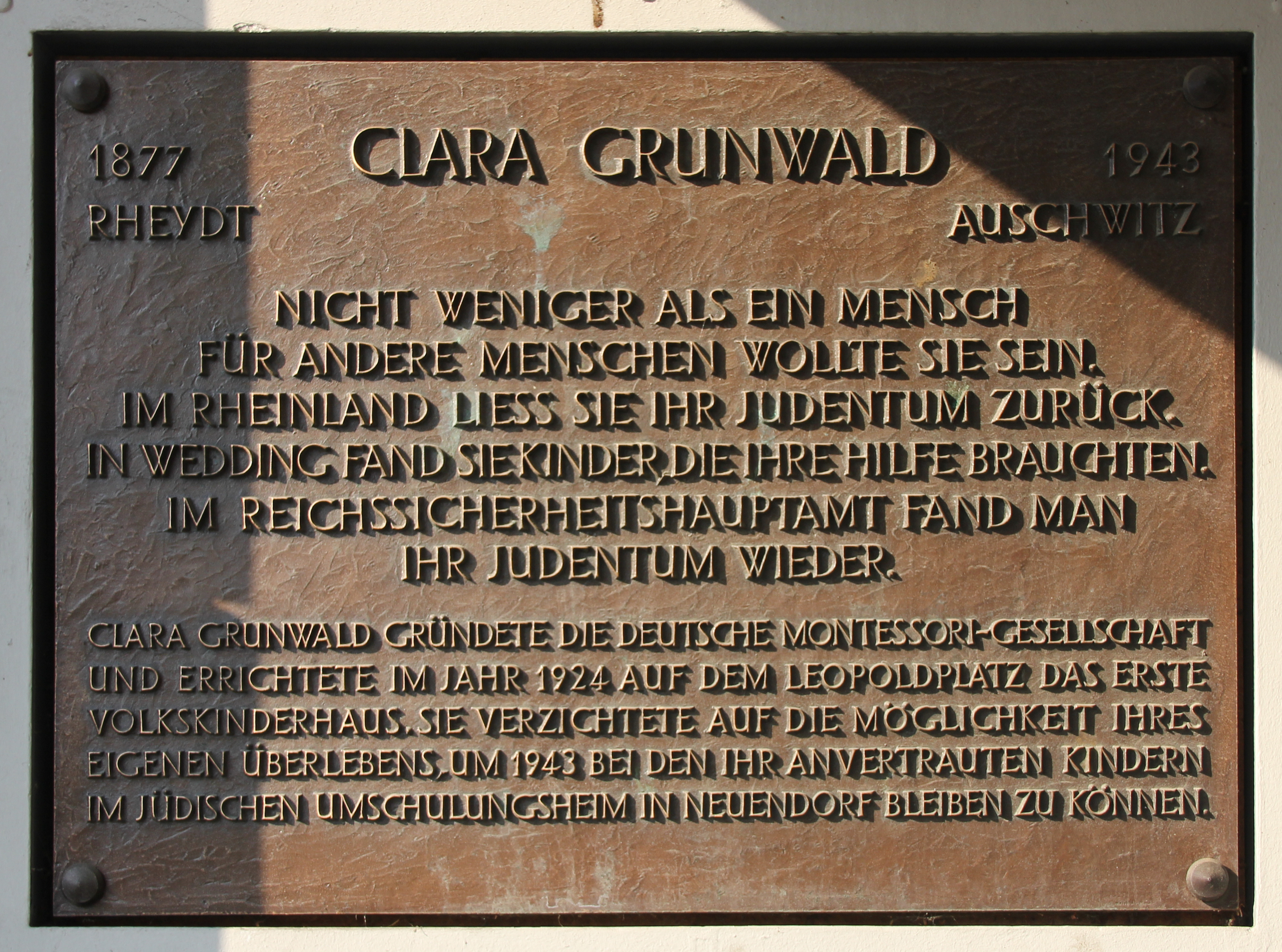 Memorial plaque, Clara Grunwald, Ruheplatzstraße 13, Berlin-Wedding, Germany